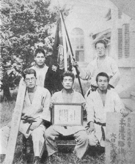 Mikage Normal School Judo Club. Sumiyuki Kotani(center) and his teammate, after winning the All-Japan High School Judo Championships.